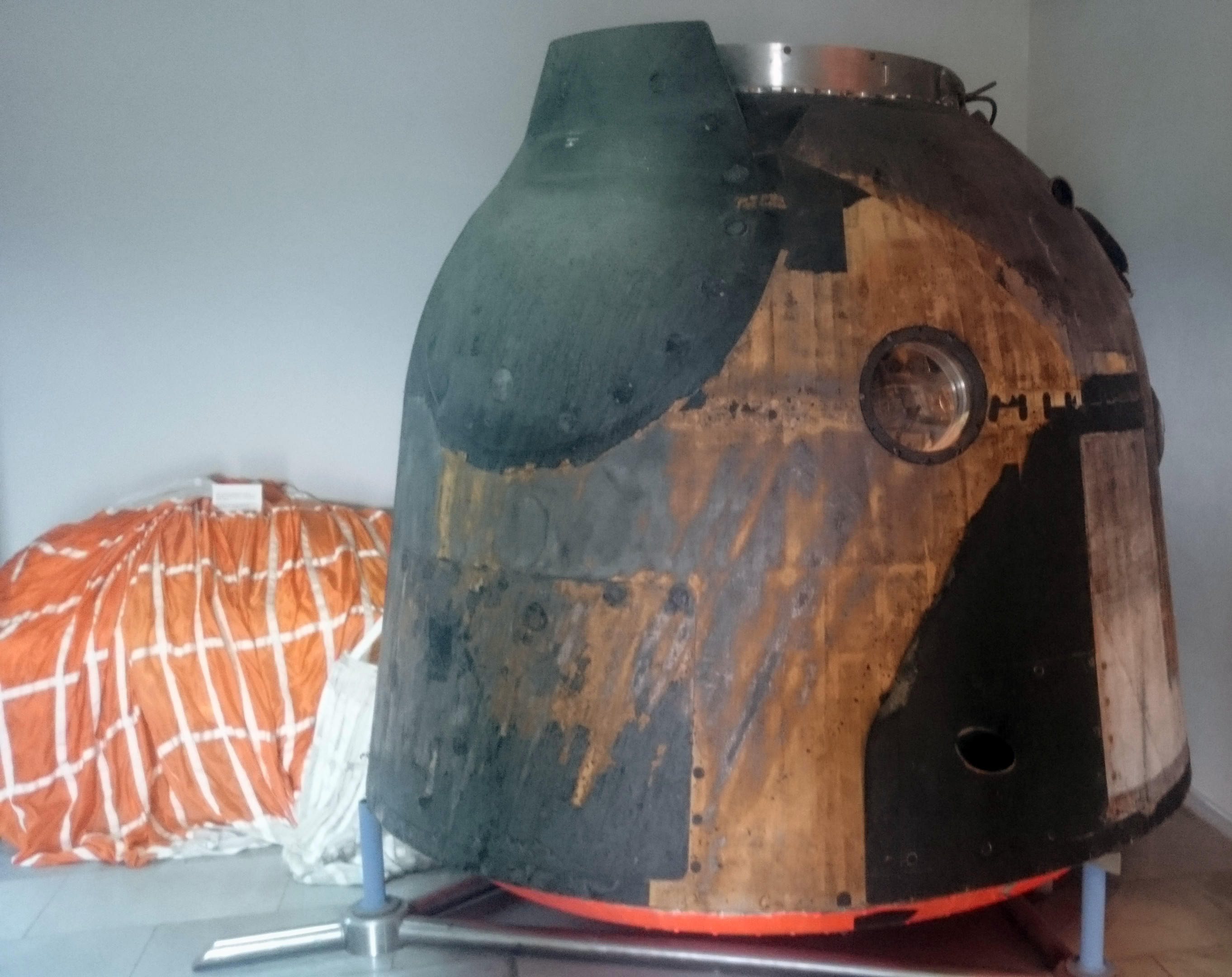 Descent module of Soyuz 7K-T, mission Soyuz 33 with it Georgi Ivanov and Nikolai Rukavishnikov returned to Earth